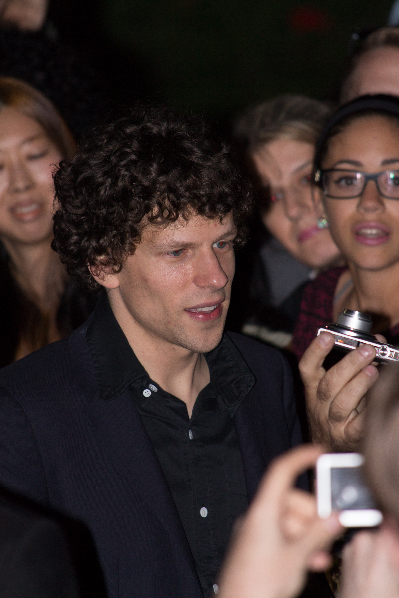 Actor Jesse Eisenberg at the Toronto International Film Festival, September 2013